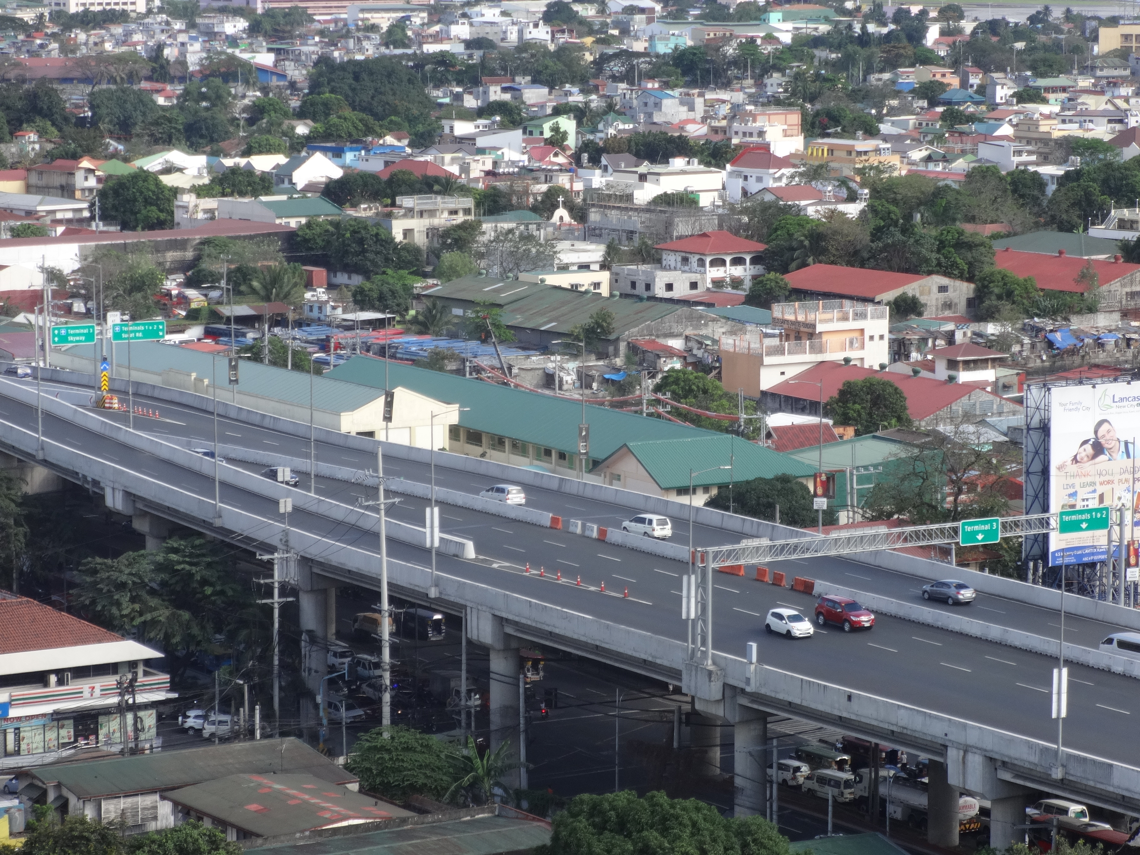 A portion of NAIA expressway in Pasay City